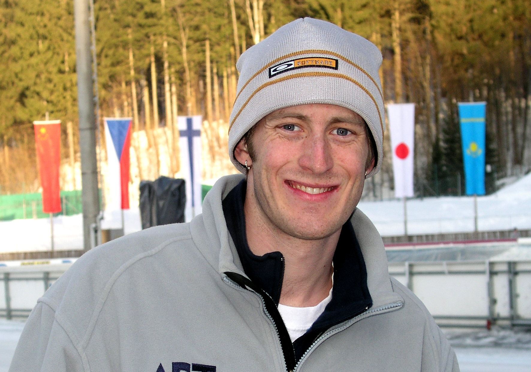 Joey cheek is a former American speedskater.